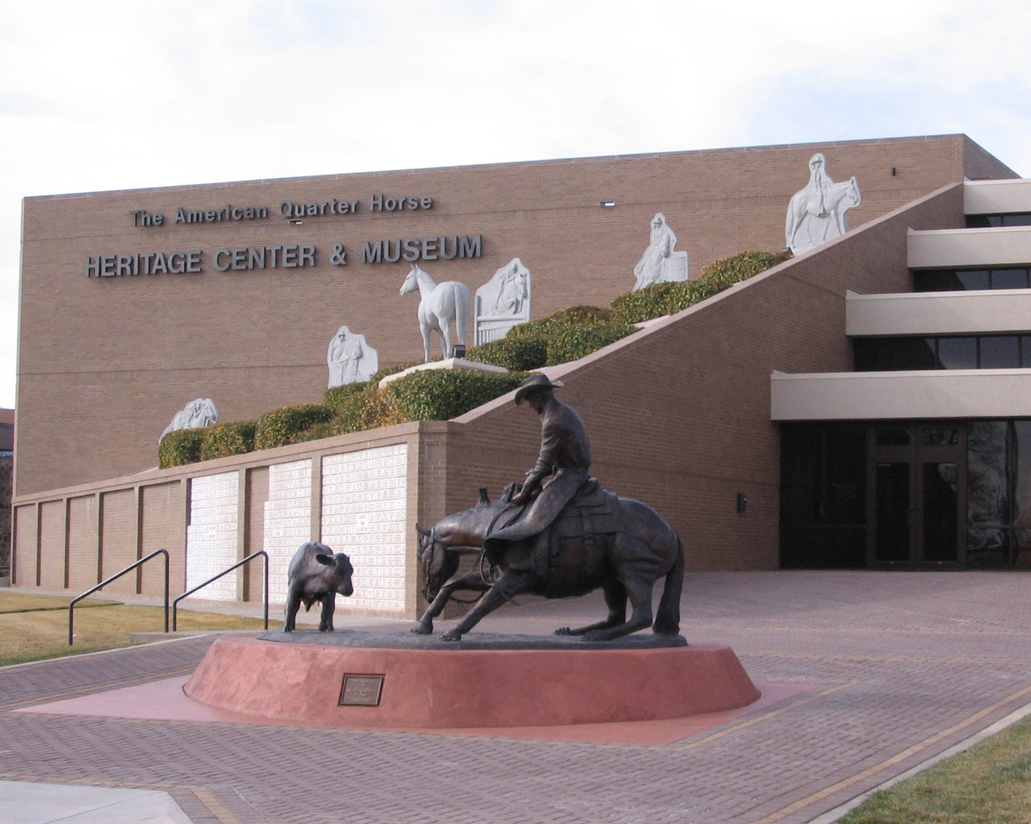 Outside of the American Quarter Horse Association's Heritage Center and Museum in Amarillo, Texas. The photograph was taken on January 27, 2006 by the uploader.